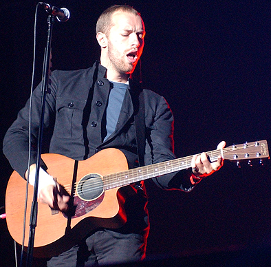 Chris Martin of Coldplay